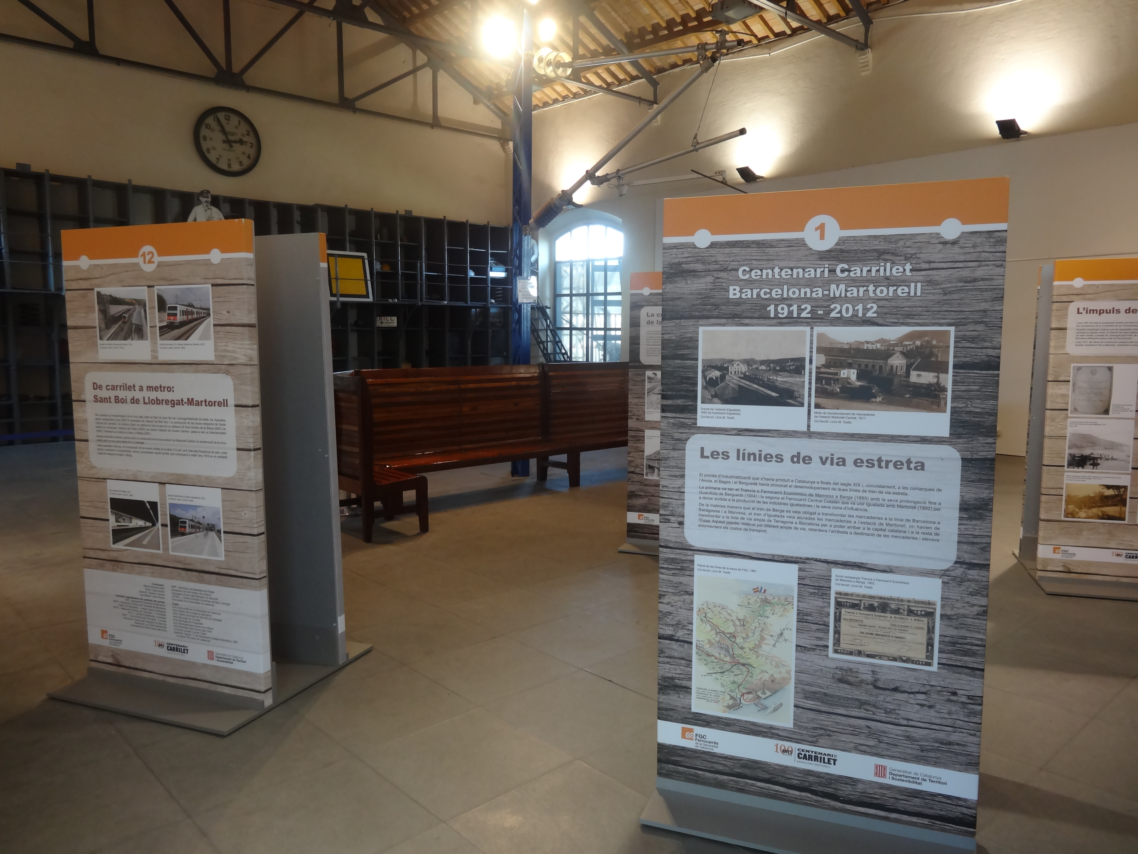 Railway museum (Vilanova i la Geltrú).